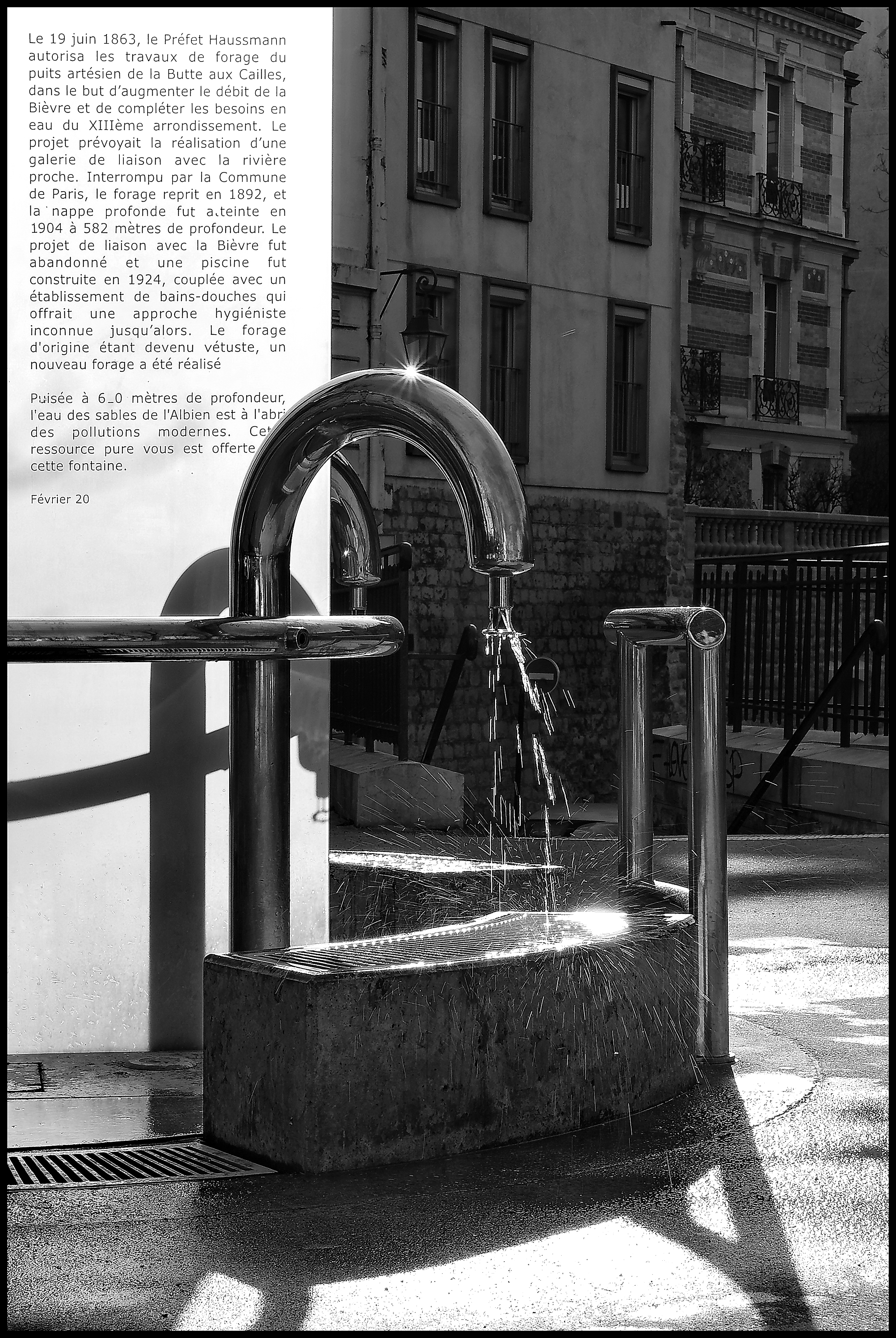 artesian aquifer in Paris